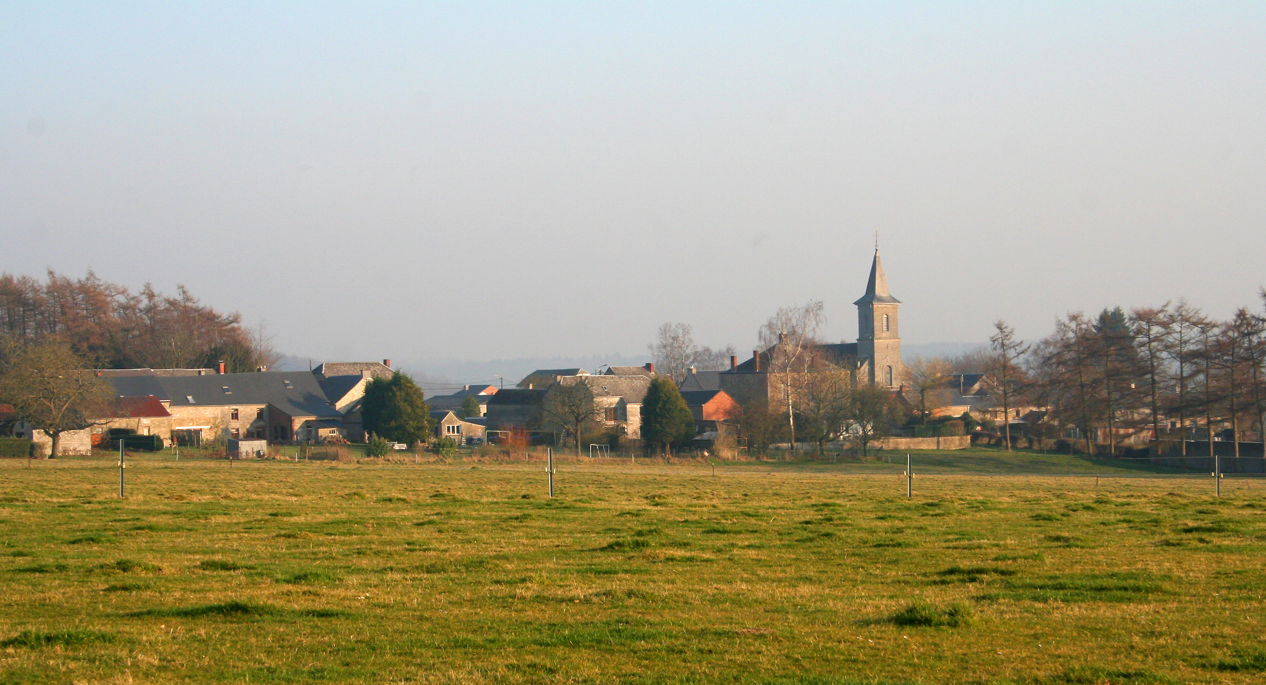 Lisogne (Belgium), the village.